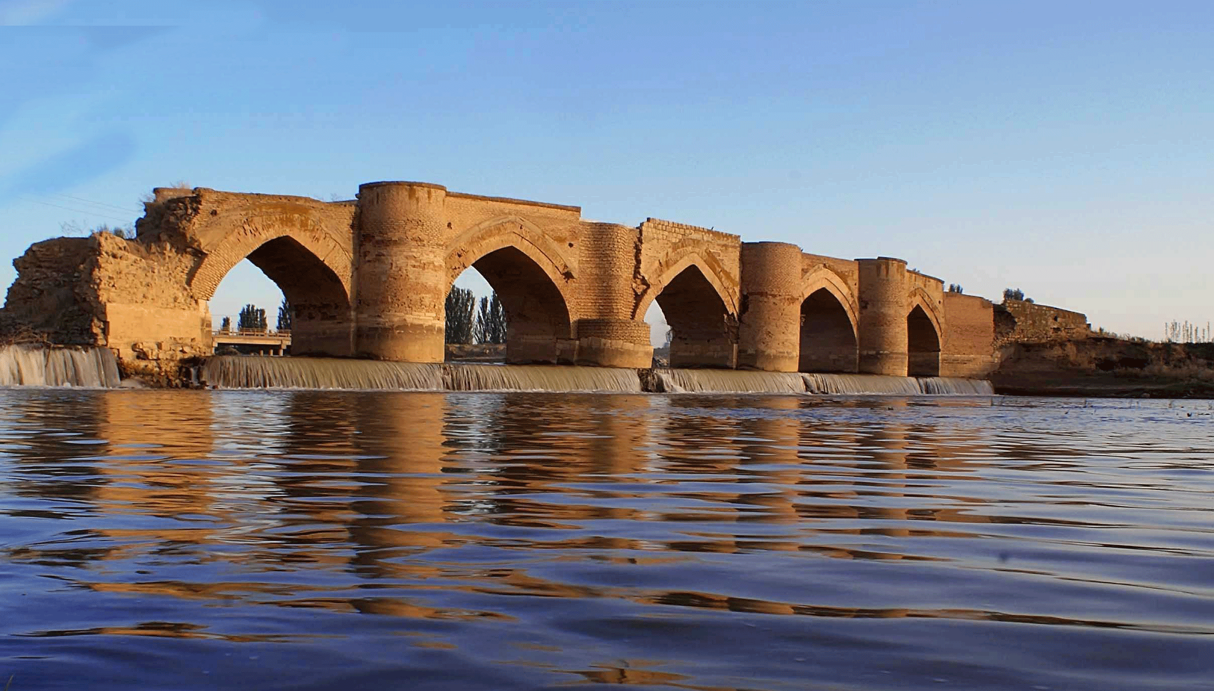 پل تاریخی میرزا رسول واقع در میاندوآب - دوره قاجار